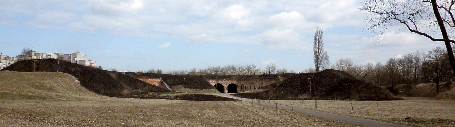 East Fort, a view from the west